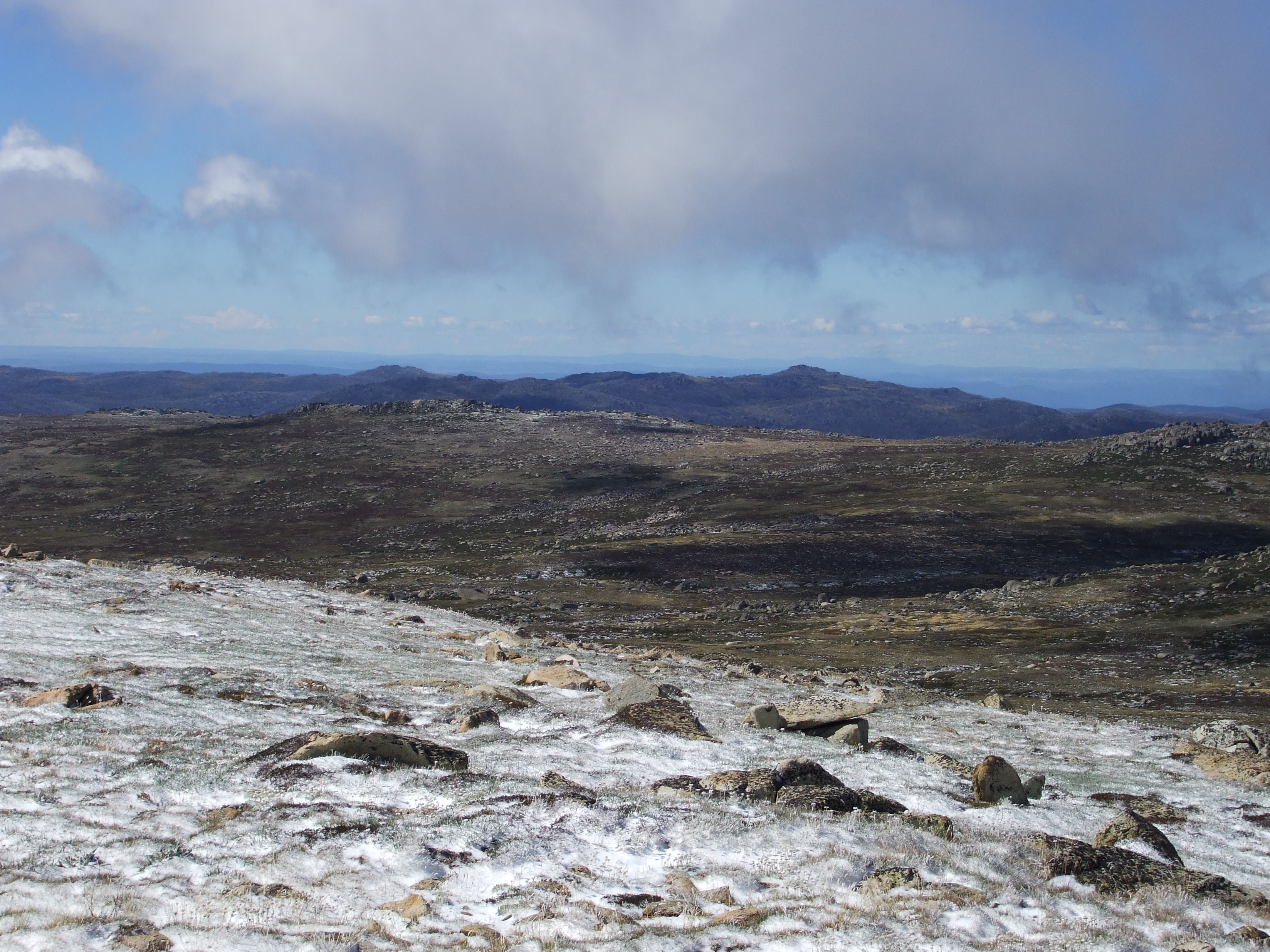 A view to the south-west from the Australian Alps Walking Track, approximately 2 km south of Mt Kosciuszko Australia.